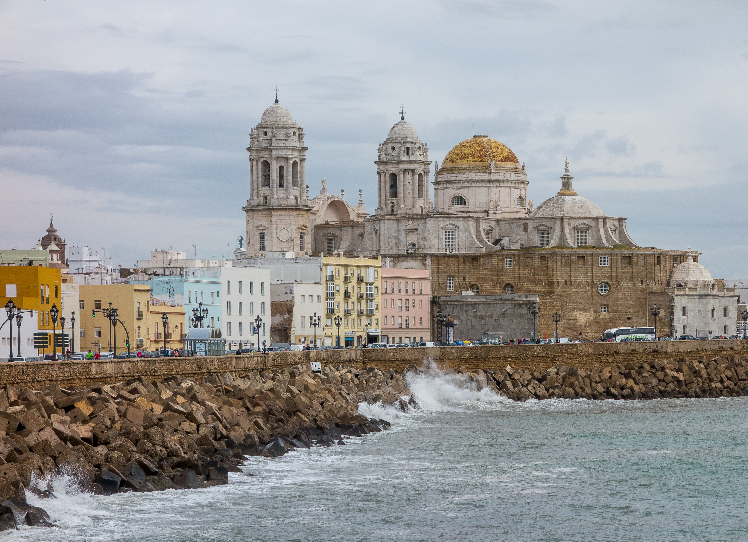 Cathedral de Santa Cruz (Cadiz, Spain)